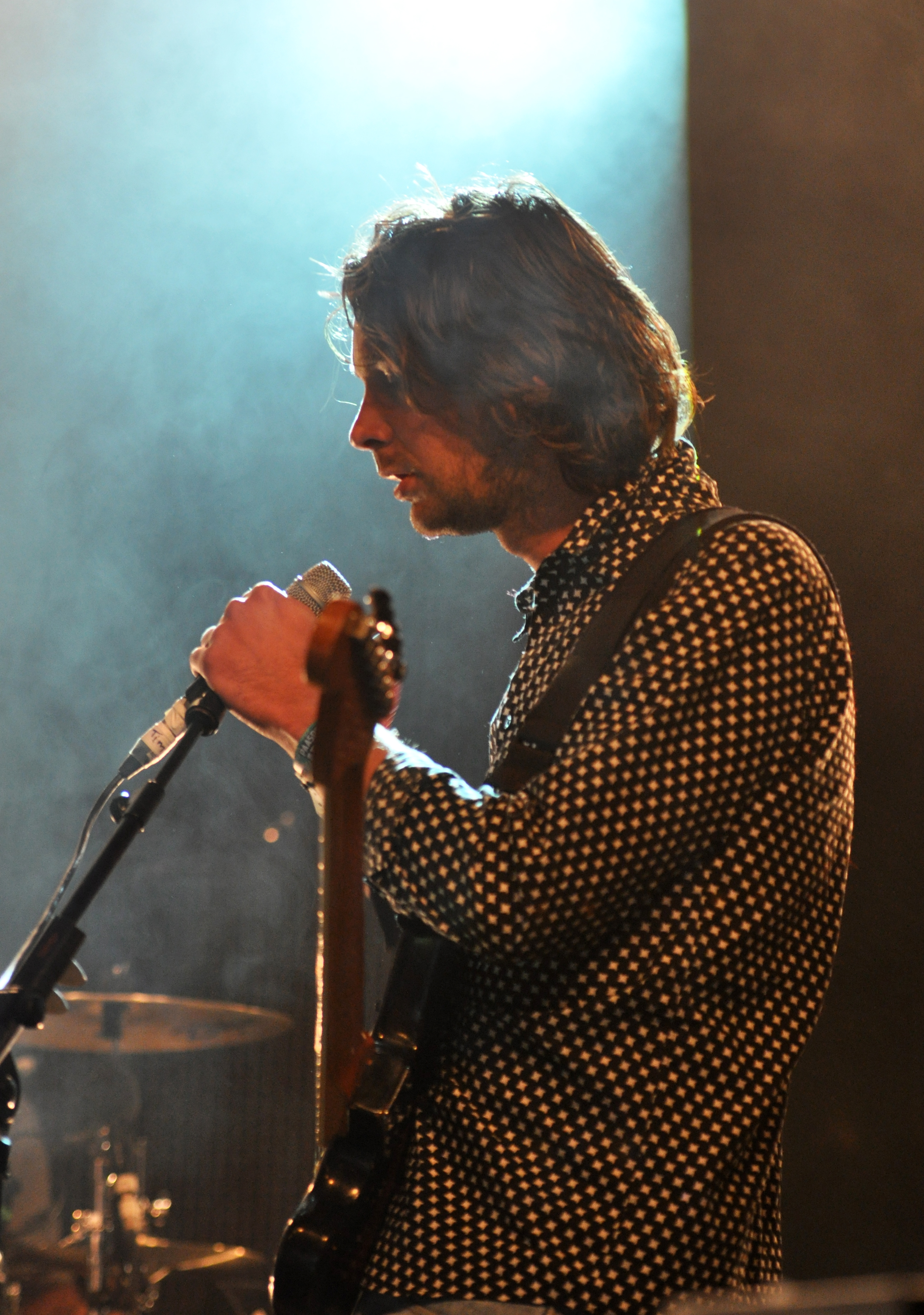 Cut Copy at Paaspop 2014